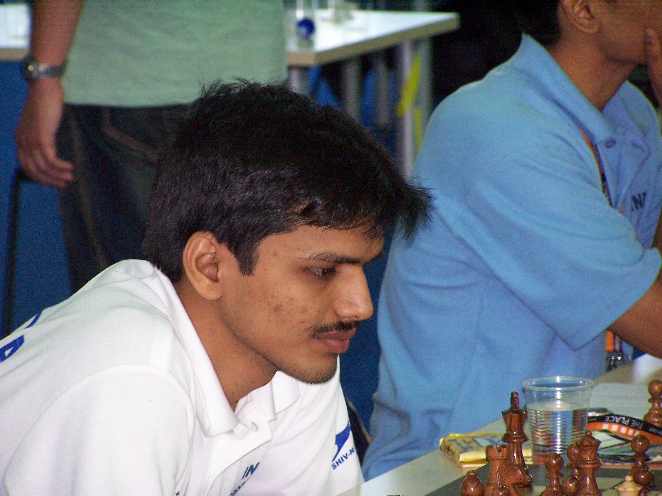 harikrishna foto olimpiadi scacchi torino 2006